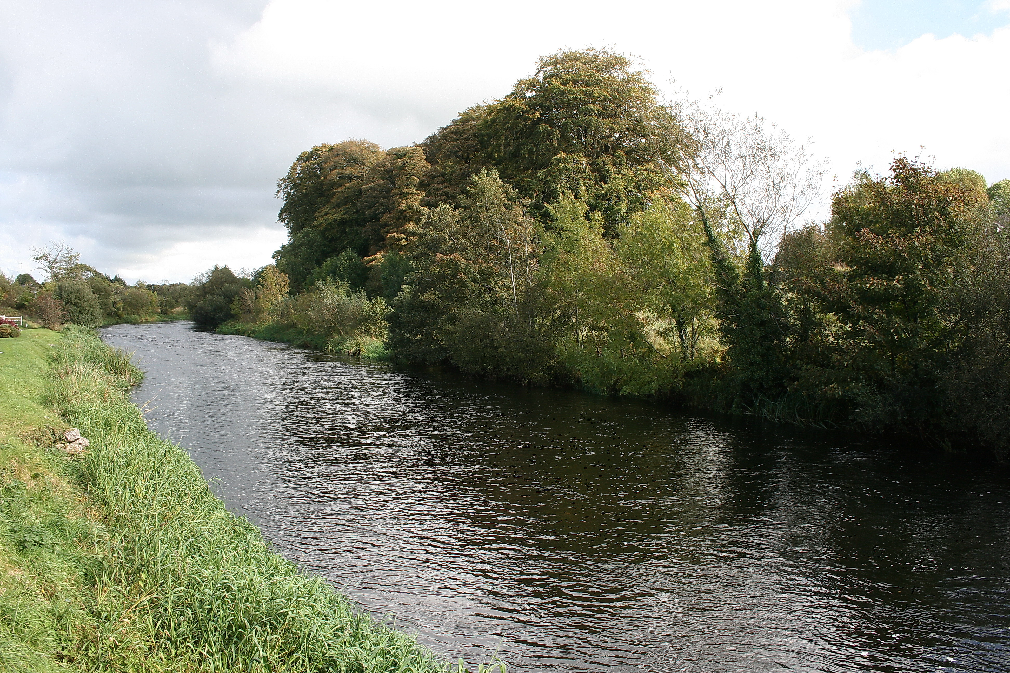 River Inny at Ballymahon, County Longford, Ireland